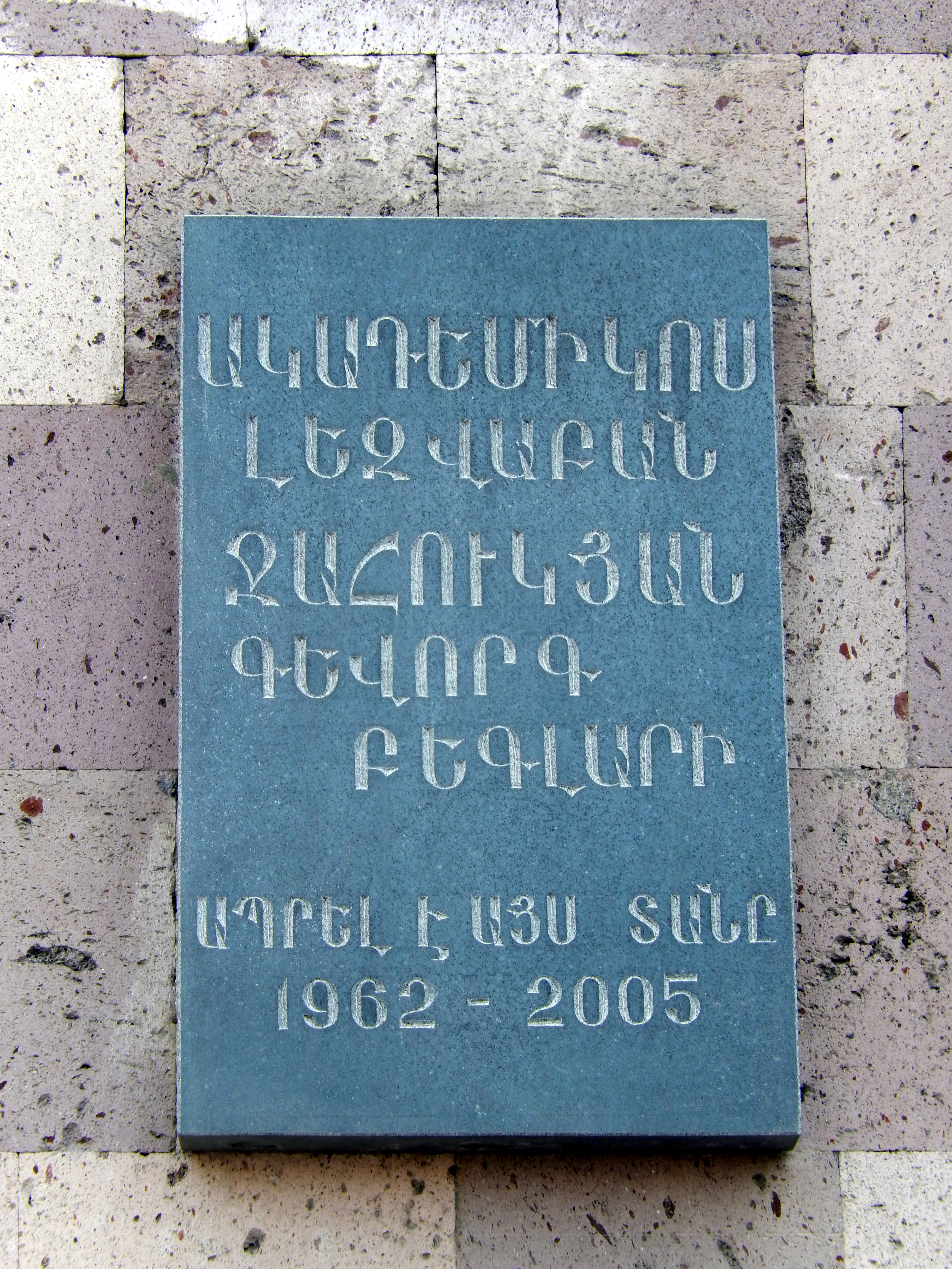 Գևորգ Ջահուկյանի հուշատախտակը Երևանի Չարենցի 4 հասցեում